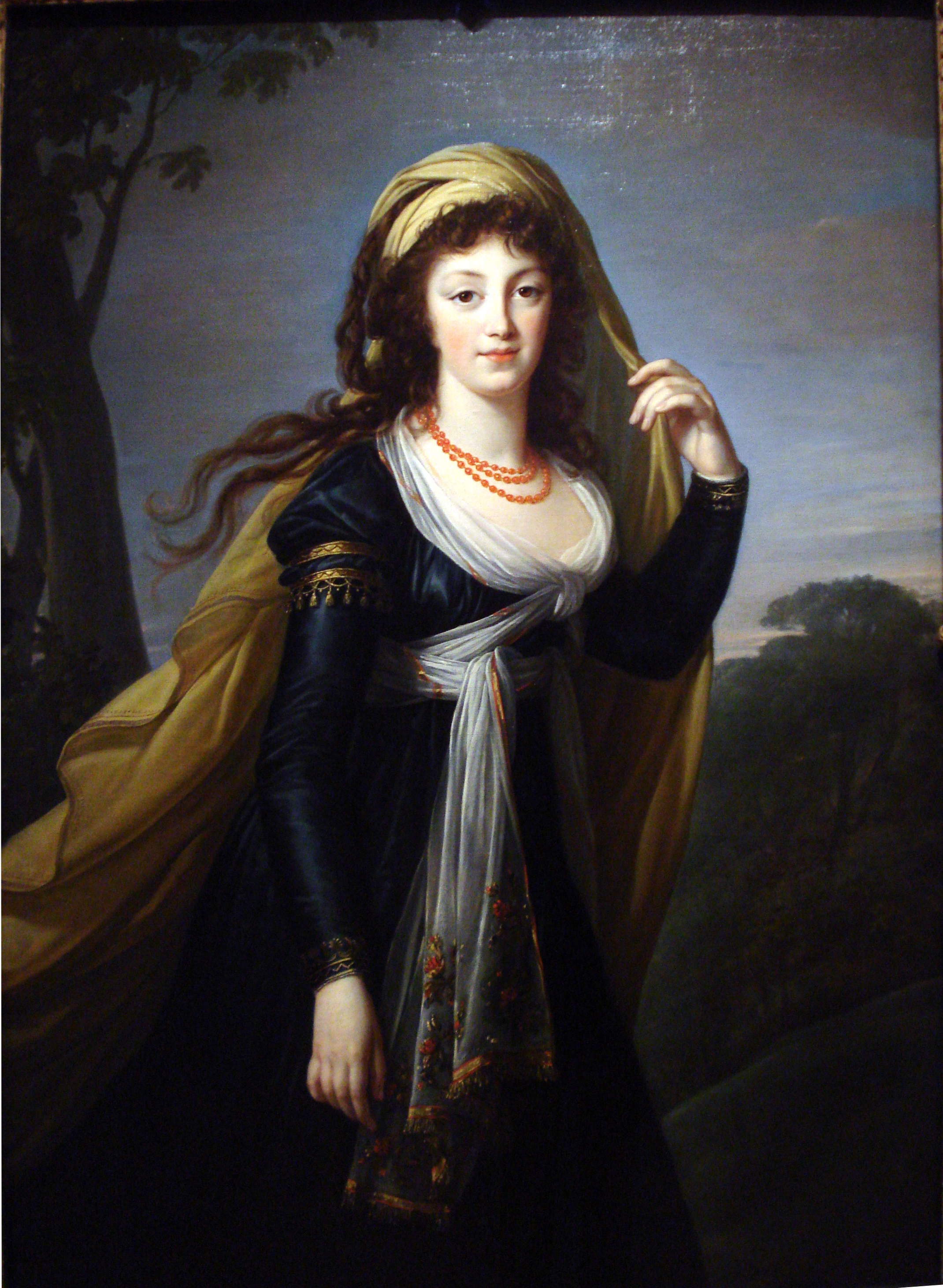 Portrait of Theresa, Countess Kinsky